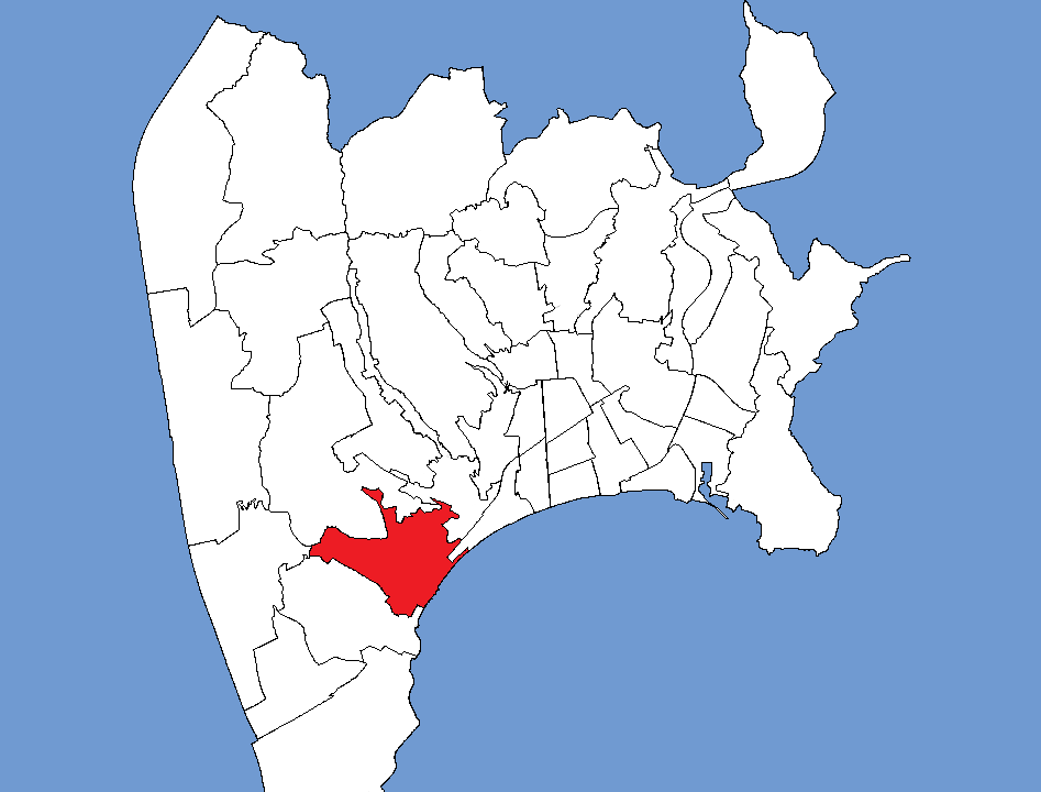 Location of the neighbourhood Fabron in Nice